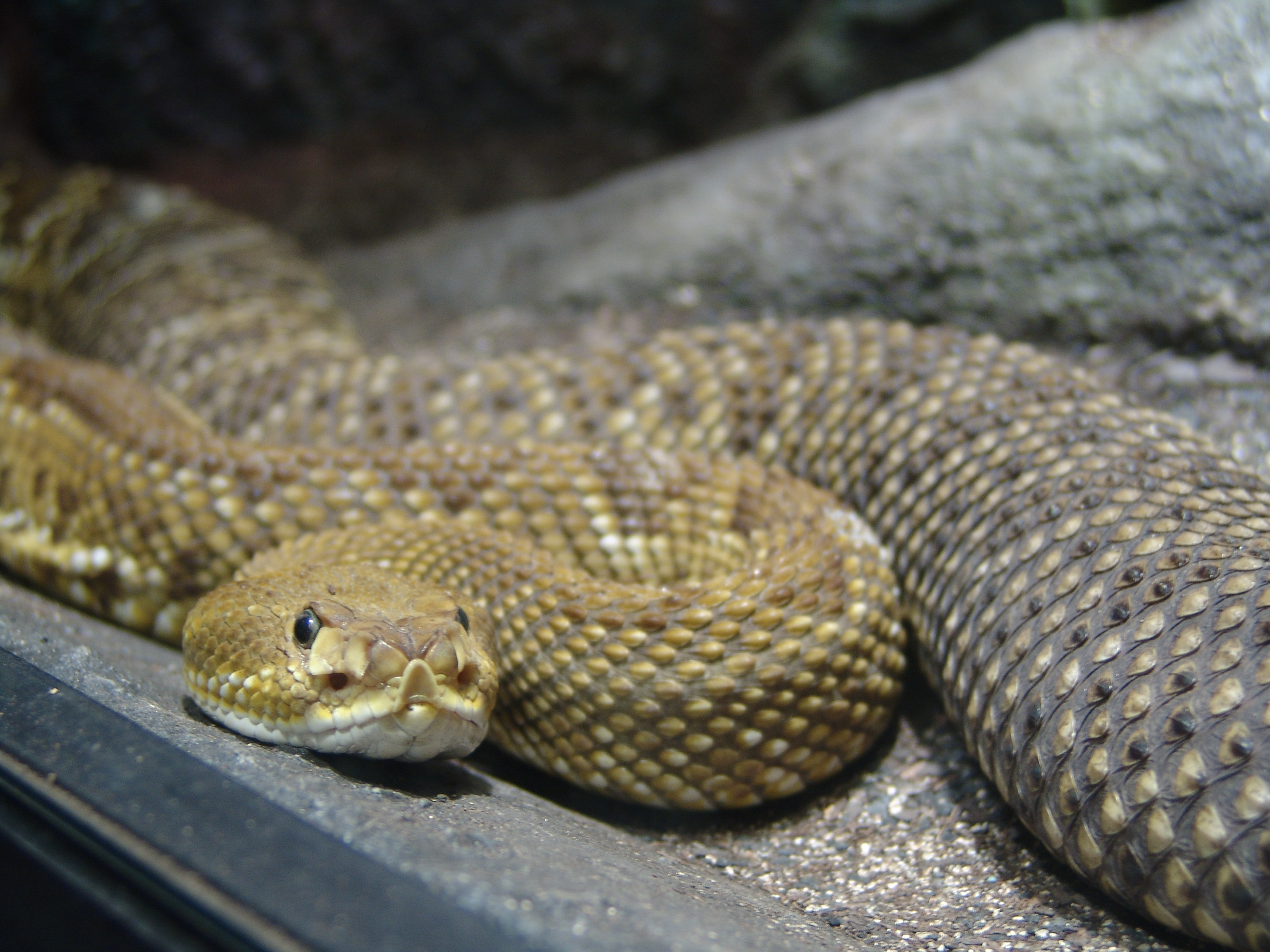 Mexican West Coast Rattlesnake at Wilmington's Serpentarium. I took the picture.